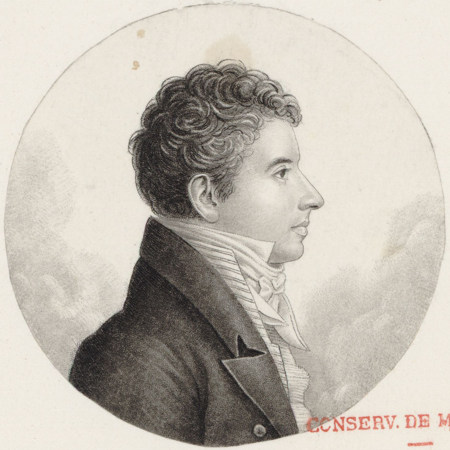 The composer Michele Carafa (1785-1872)